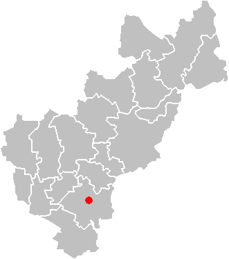 Map showing the City of San Juan del Rio, State of Queretaro, Mexico